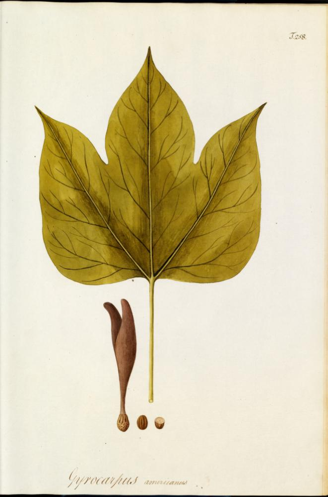 Illustration of Gyrocarpus americanus